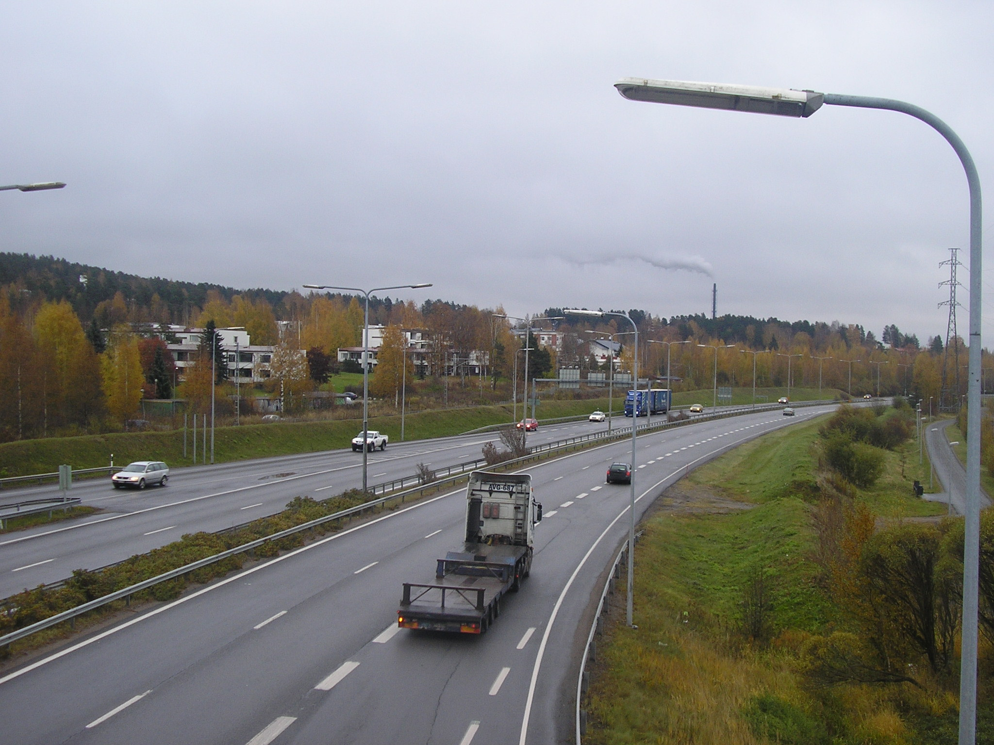 Main roads 4 (E75), 9 (E63), 13, 23 on Vaajakoski motorway in Jyväskylä, Finland